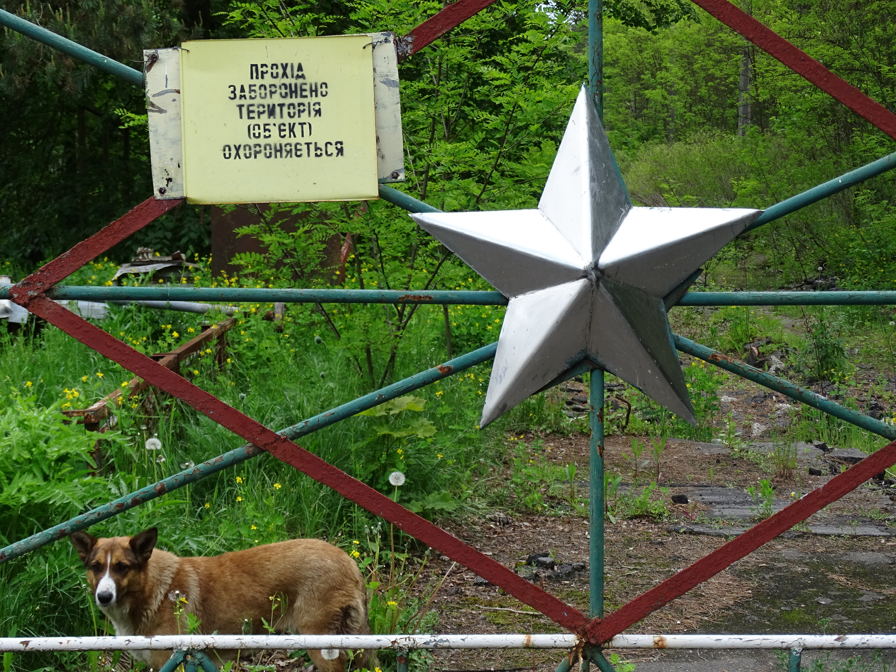 Gate outside Abandoned Soviet Over-the-Horizon Radar Array - Chernobyl Exclusion Zone - Northern Ukraine - 01